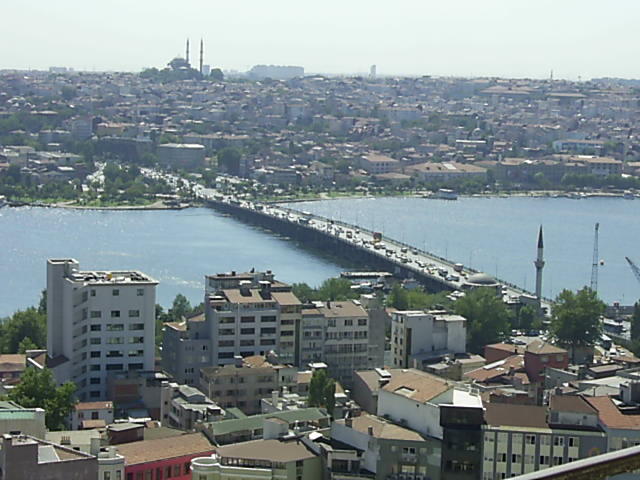 View of Istanbul from the Galata Tower